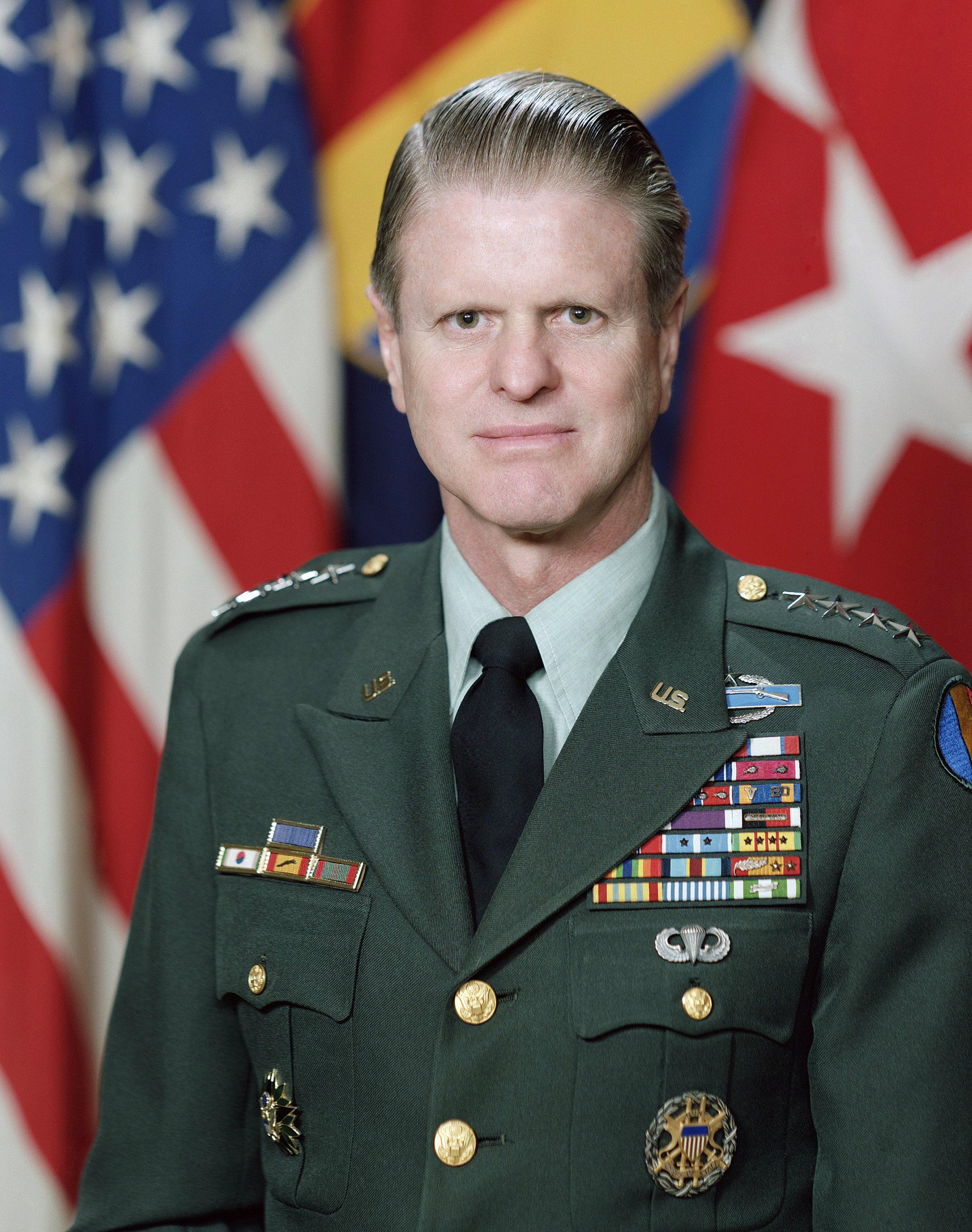 General William R. Richardson, USA, commanding general, U.S. Army Training and Doctrine Command.